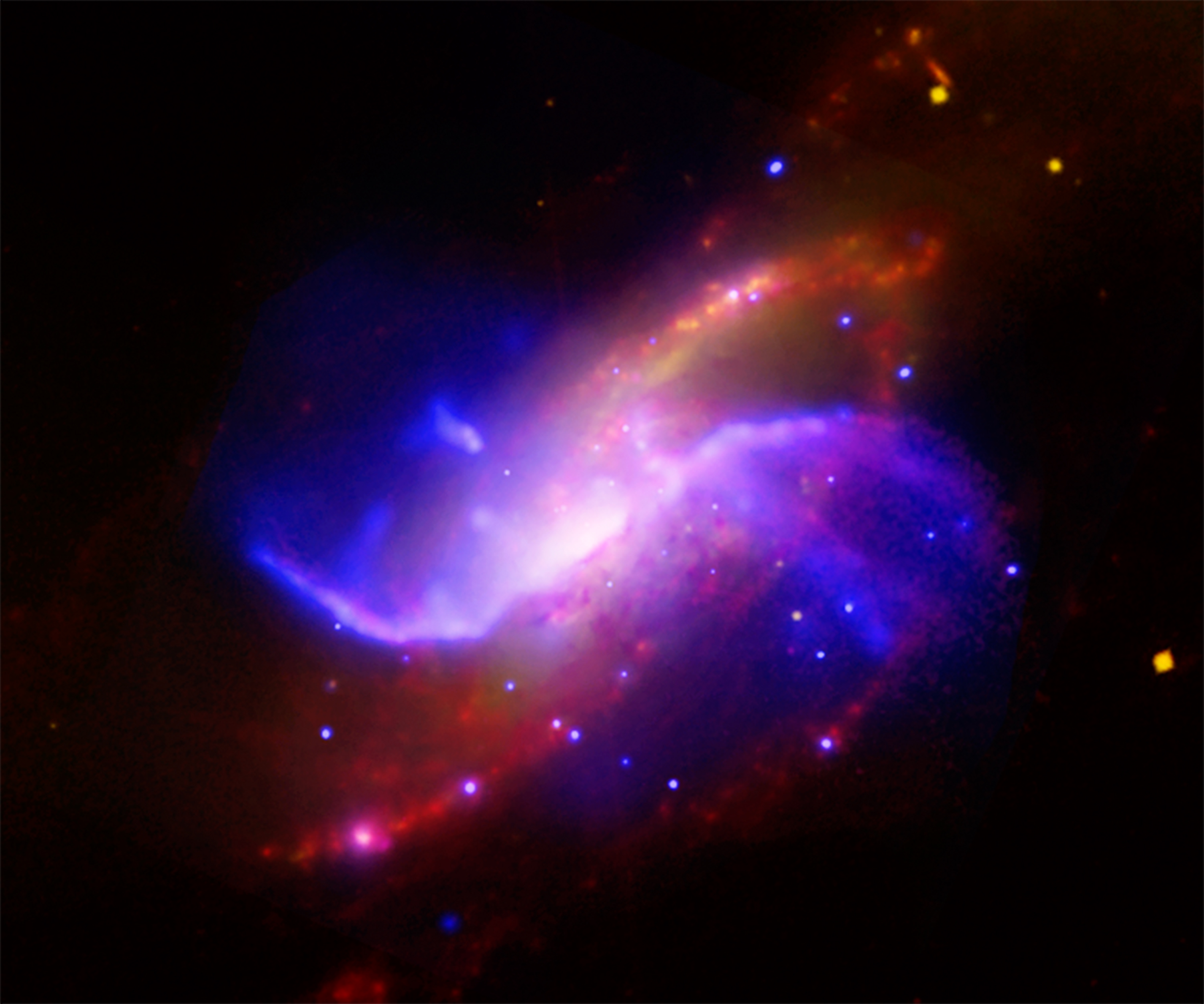 Messier 106 (NGC 4258) galaxy. Composite of IR, x-ray, radio and visible light view (X-ray - blue, Optical - gold, IR - red, Radio - purple) Band Wavelength Telescope X-ray 1.5 keV Chandra ACIS Optical 440 nm DSS Infrared 8.0 µm Spitzer IRAC Radio 21.0 cm VLA .